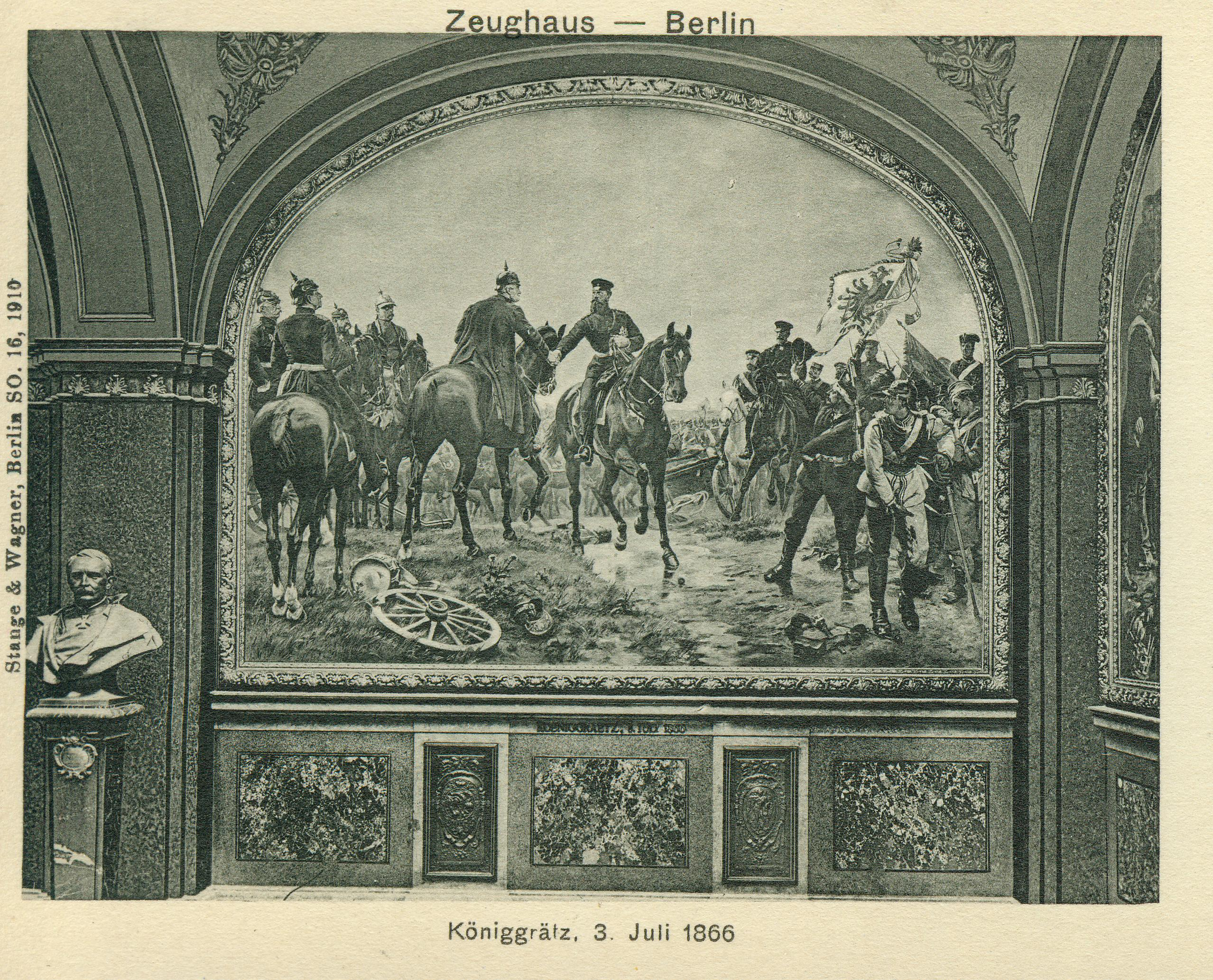 Ruhmeshalle Berlin, wallpainting by Emil Hünten